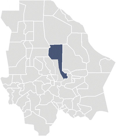 Map of the Eight Federal Electoral District of the State of Chihuahua, México.